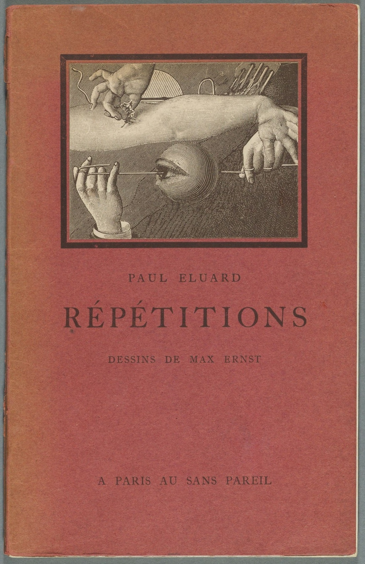 Cover of Répétitions, 1922, by Paul Éluard, with illustrations by Max Ernst. Typ 915.22.3605, Houghton Library, Harvard University